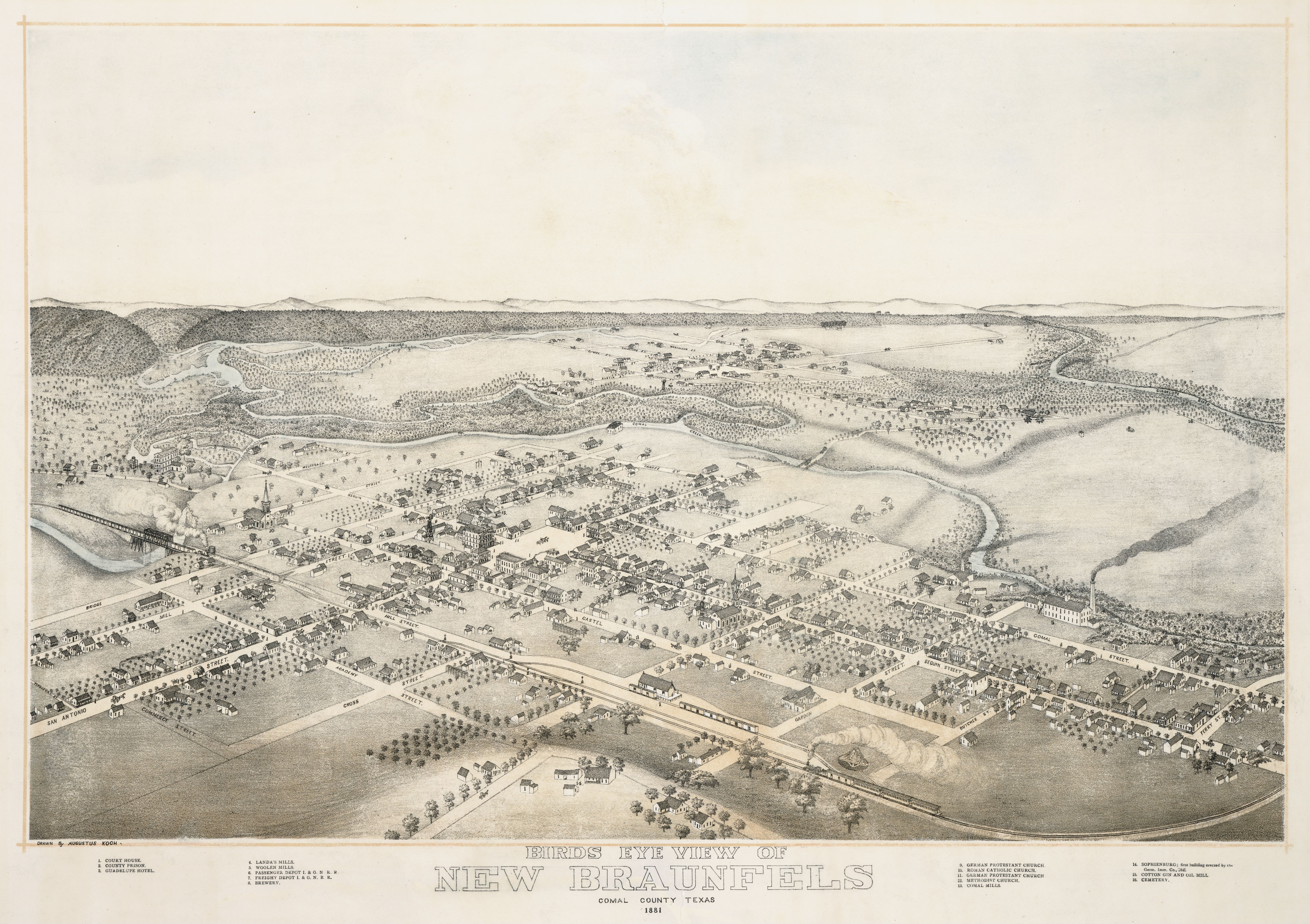 New Braunfels, Texas in 1881. Bird's Eye View of New Braunfels Comal County Texas 1881, 1881. Toned lithograph, 17.8 x 28.3 in. Lithographer unknown. Amon Carter Museum, Fort Worth. Gift of Mr. C. W. Geue.